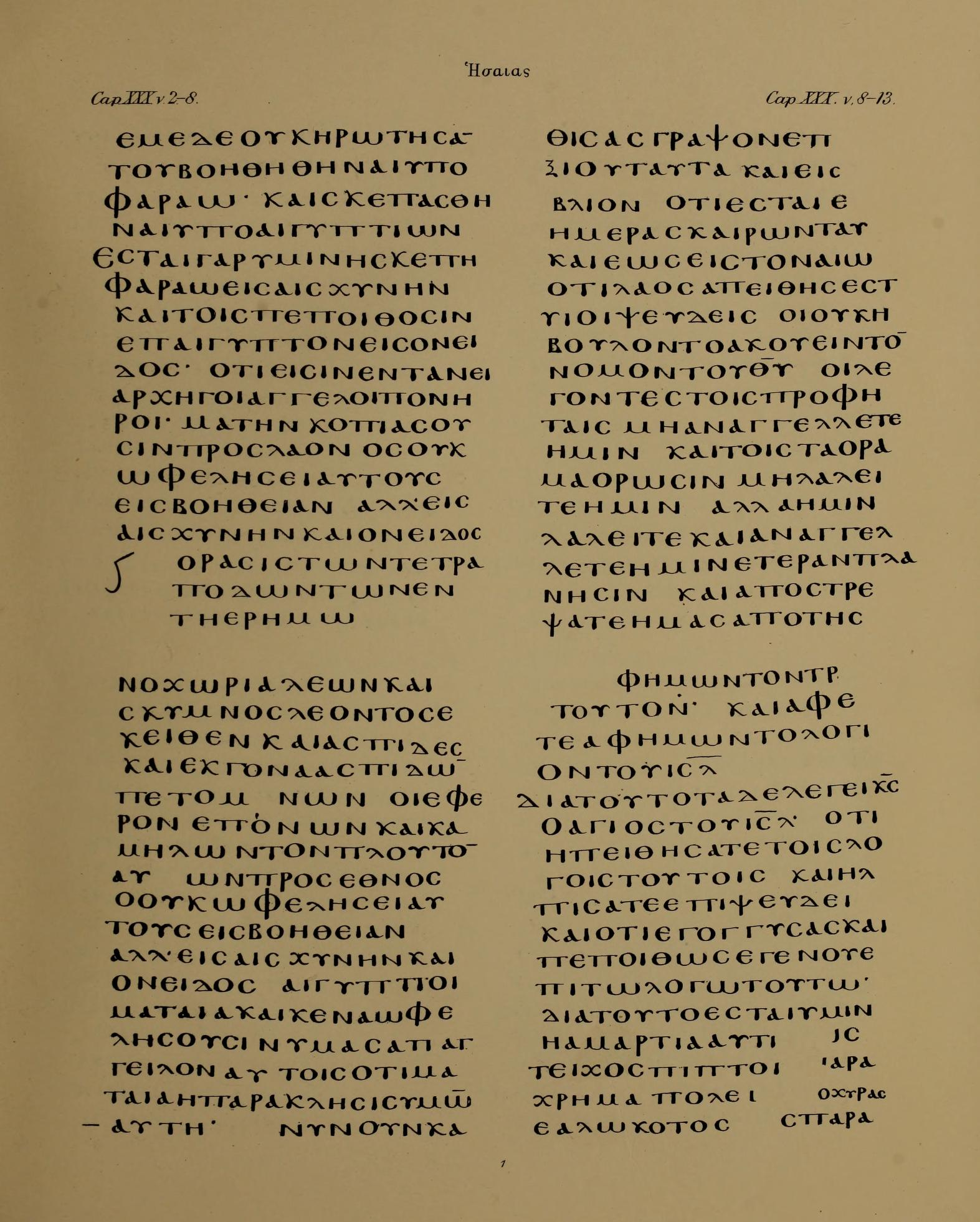 Codex Dublinensis Rescriptus, 918 (Rahlfs), Isaja 30:2-13 in Abbott's facsimile from 1880 (